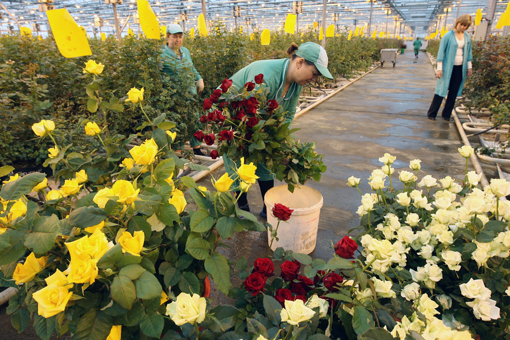 “Hot house of the Bogorodskiye Rosy trading company prepares flowers for the International Women's Day”. Flowers grown in Bogorodskiye Rosy hot house on the eve of the International Women's Day.